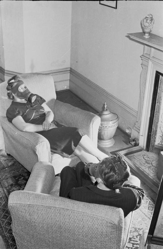 Air Raid Precautions on the British Home Front- Anti-gas Instruction, c 1941 A couple relax in armchairs in front of the fire whilst wearing their gas masks. Civilians were encouraged to wear their masks for 15 minutes a day to get used to wearing them.